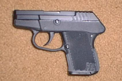 Kel-Tec P-32 .32 ACP semi-automatic pistol, 2nd Generation (2005)